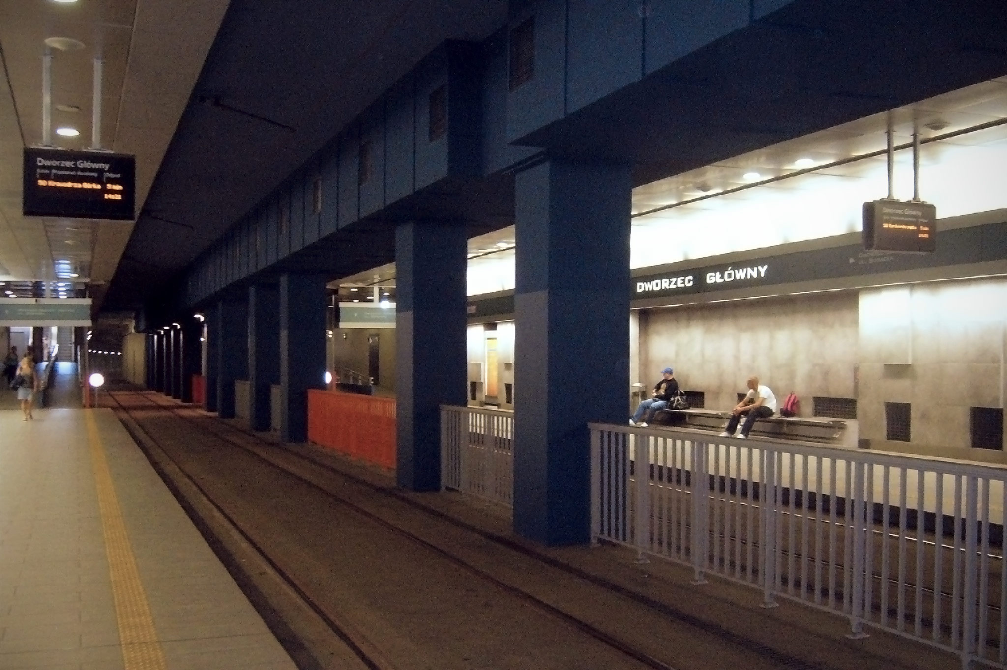 The Dworzec Główny Tunel underground station in Krakow tram tunel.